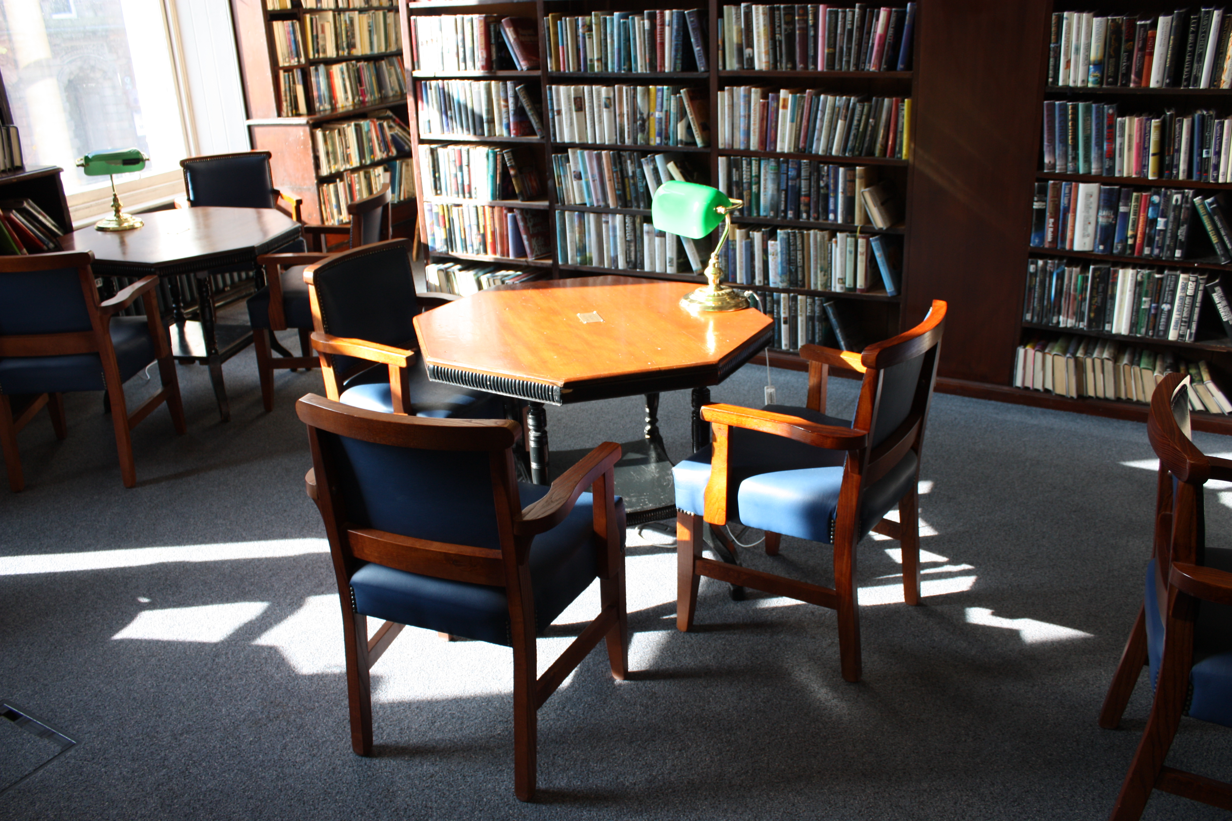 Linen Hall Library, Donegall Square North, Belfast, Northern Ireland, October 2009